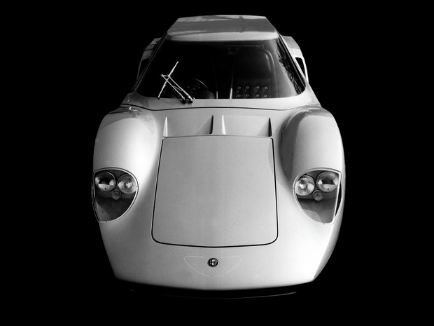 1966 Alfa Romeo Scarabeo by OSI - Front view